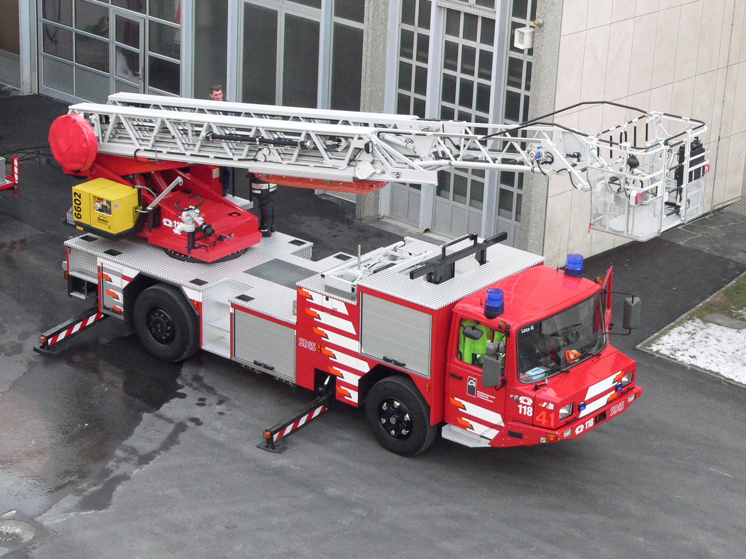 Iveco fire truck, fire engines in Lausanne, Switzerland